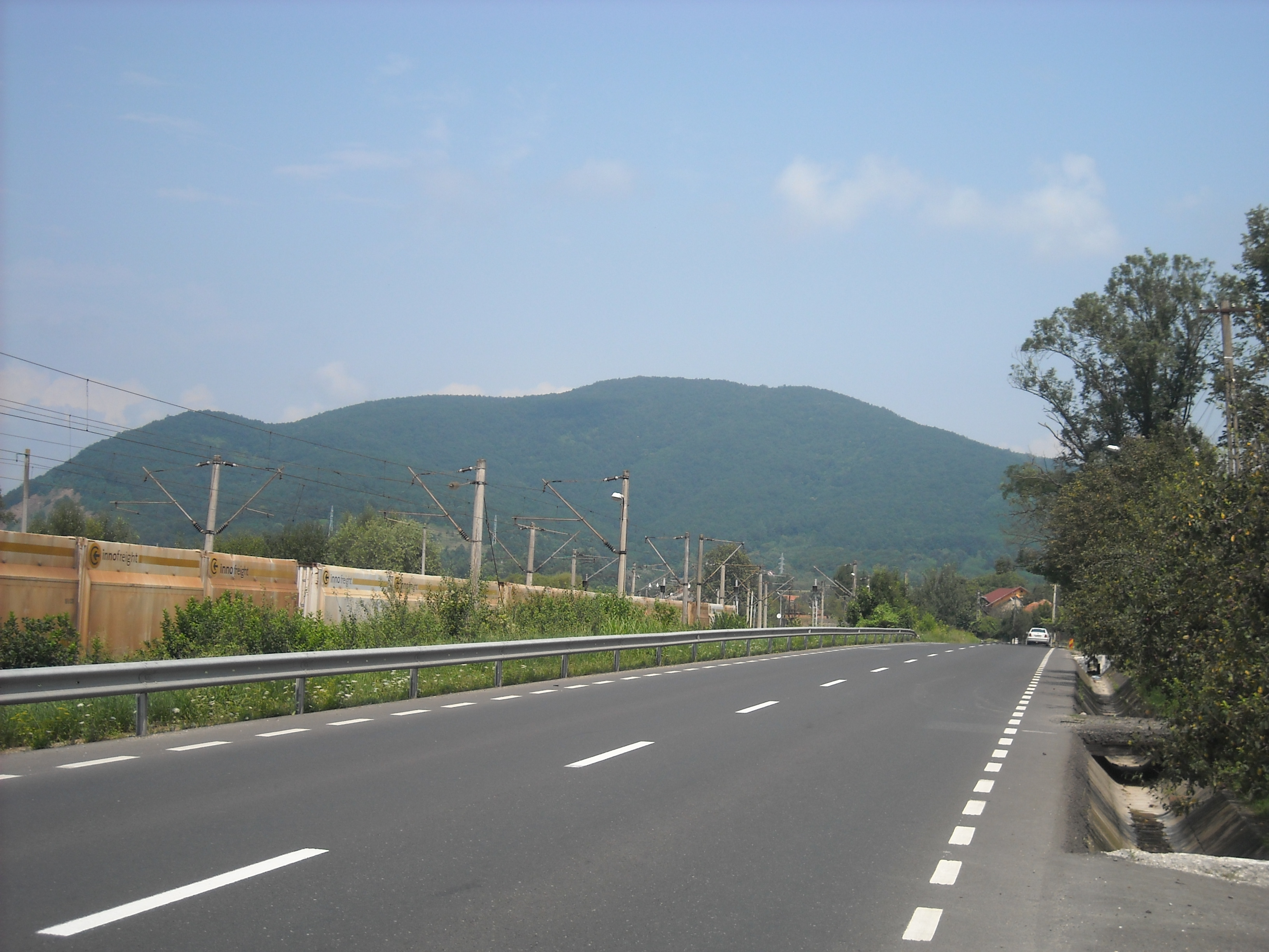 Zam, a village by the Mureș River, girdling the hill in the focus of the picture. It is in a commune also called Zam, in Hunedoara County, Romania.